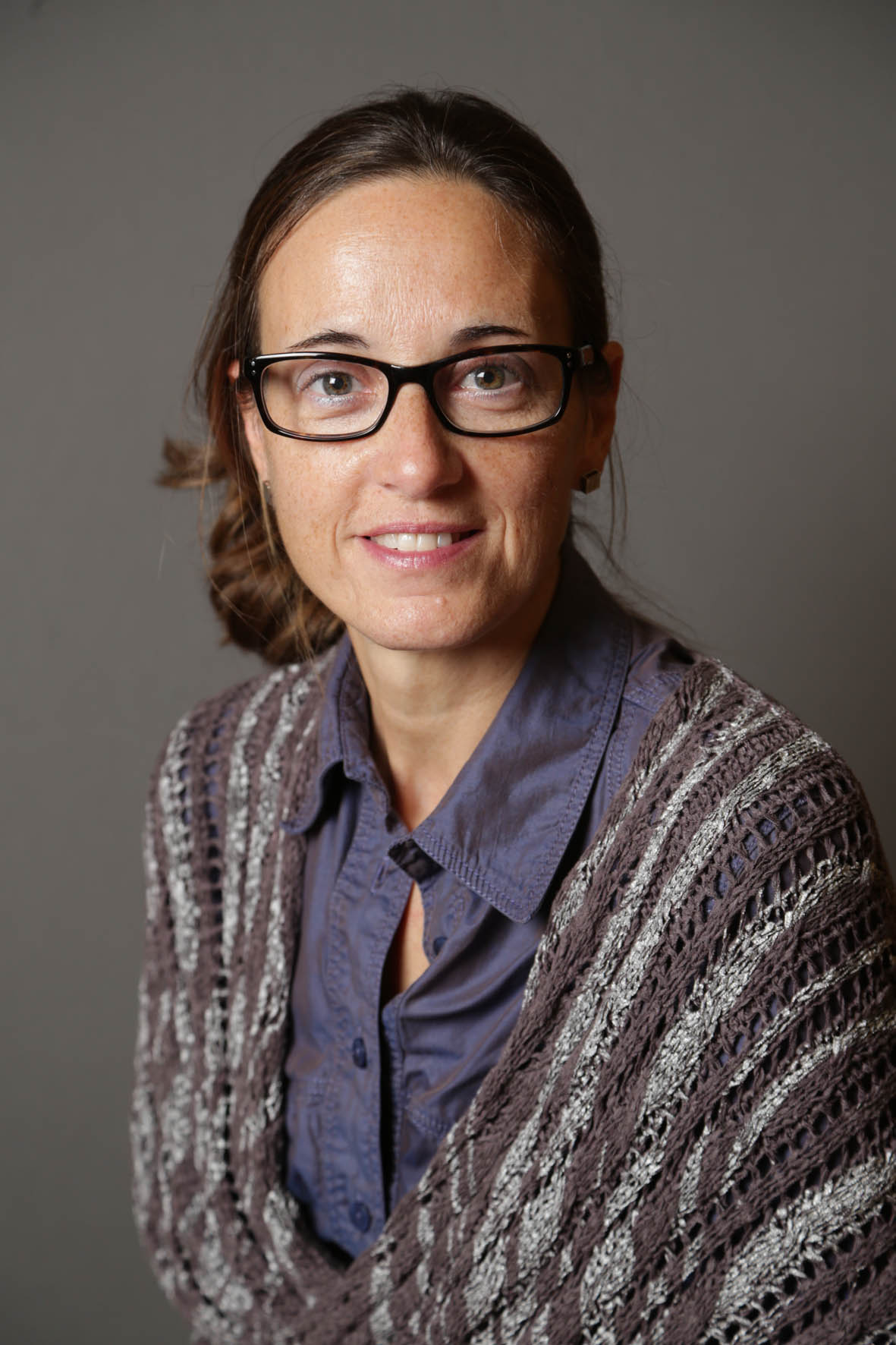 Candidats Eleccions Generals 2015 Carme Sayós